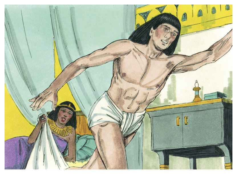 Biblical illustration of Book of Genesis Chapter 39